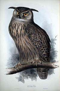 Eagle Owl, illustration by edward lear of a great horned owl, ca. 1833